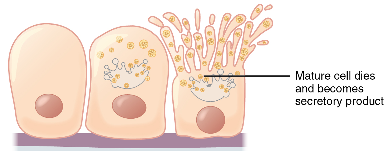 Based off